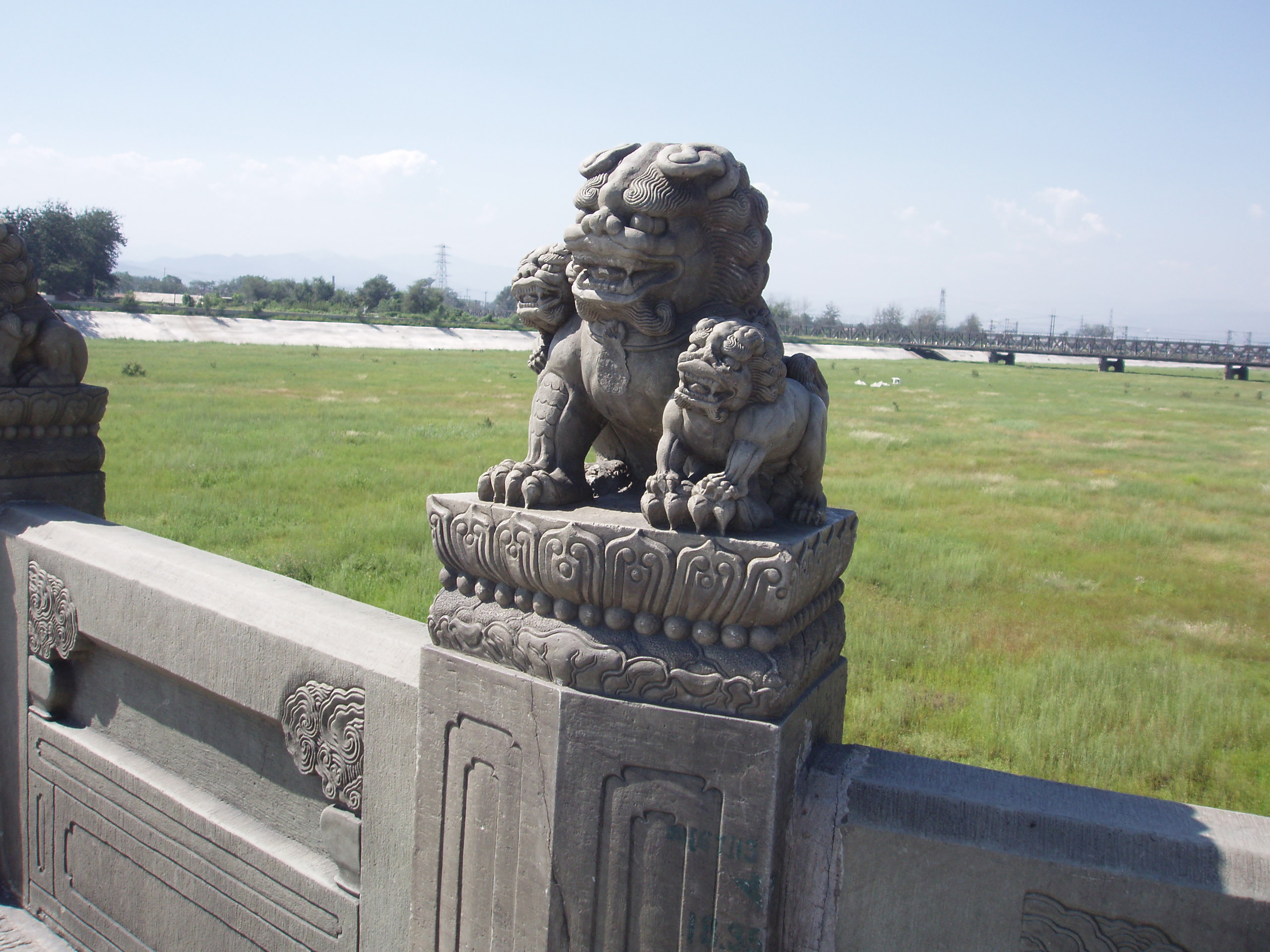 Stone decorations on the bridge